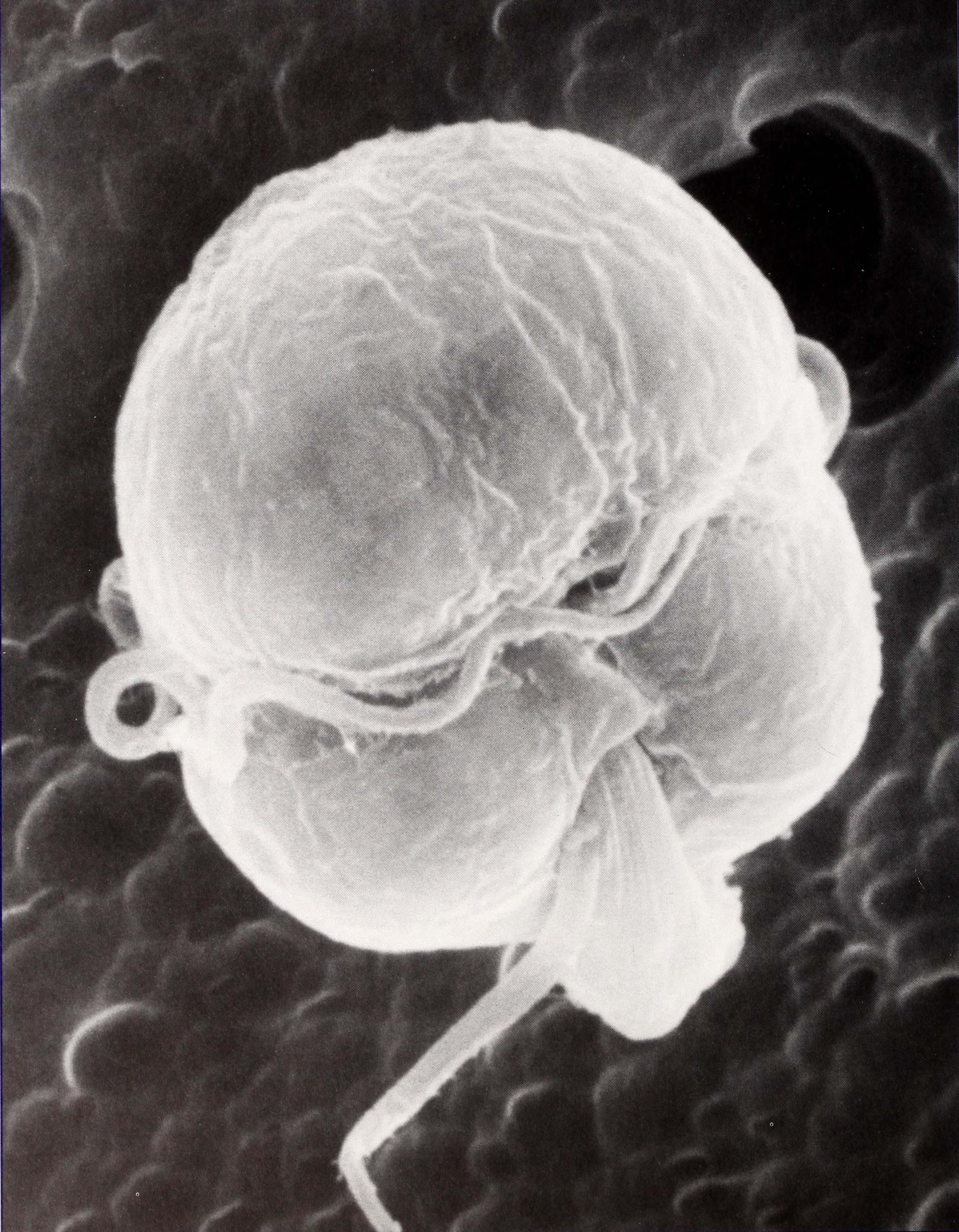 Pfiesteria piscicida Title: Coast watch Year: 1979 (1970s) Authors: UNC Sea Grant College Program Subjects: Marine resources; Oceanography; Coastal zone management; Coastal ecology Publisher: (Raleigh, N. C. : UNC Sea Grant College Program) Text Appearing Before Image: ' Text Appearing After Image: '